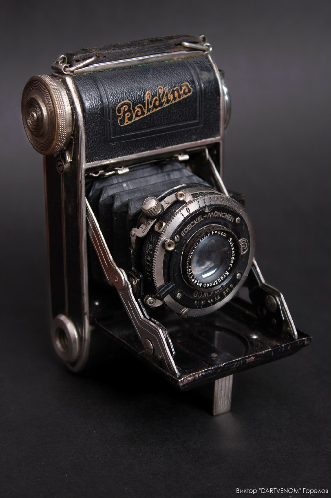 Baldina